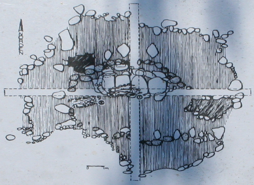 Megalithic tomb Nipmerow